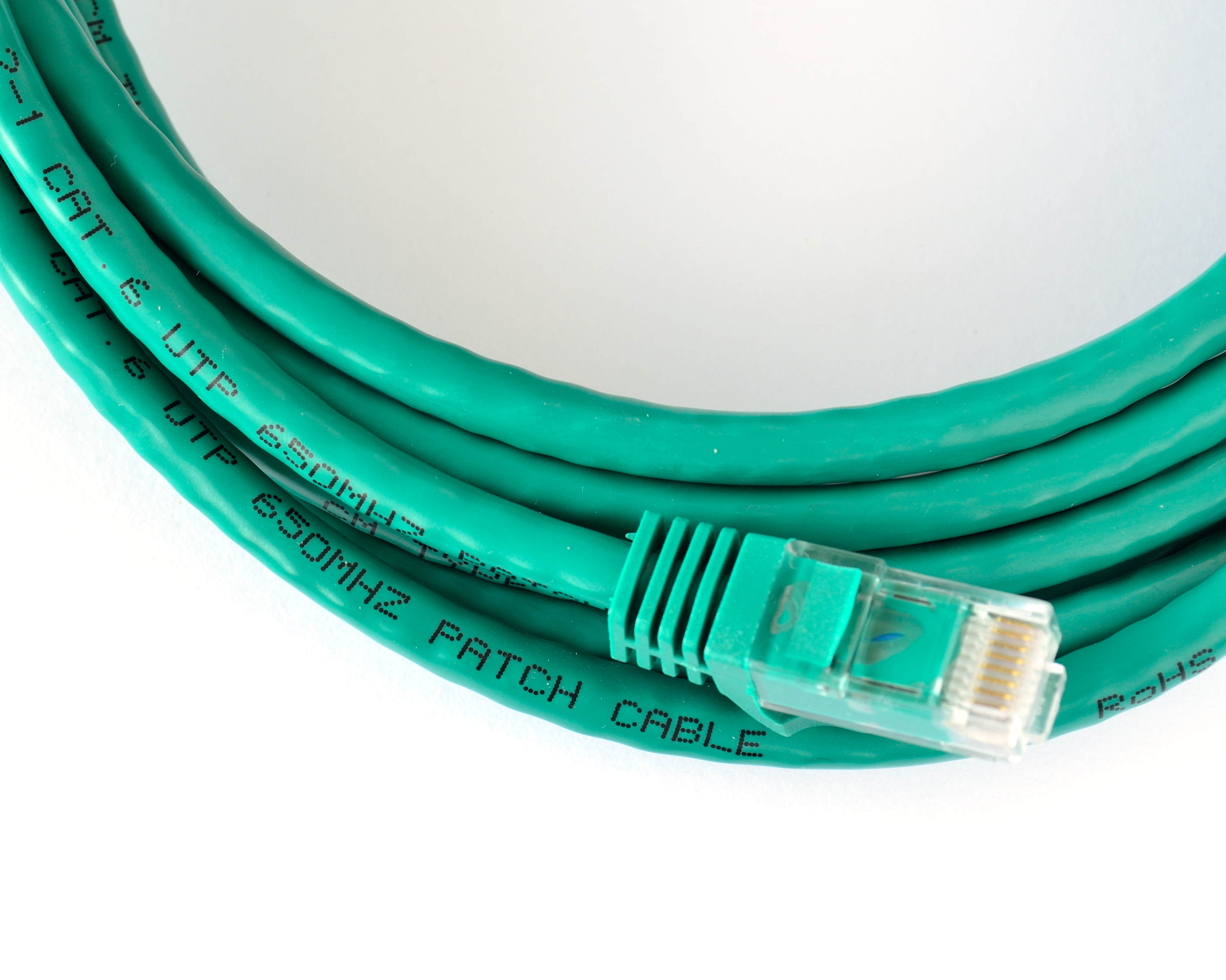 A green ethernet cable - camera focus is on the text "PATCH CABLE" (Photo purposely shot for the Patch cable article.)